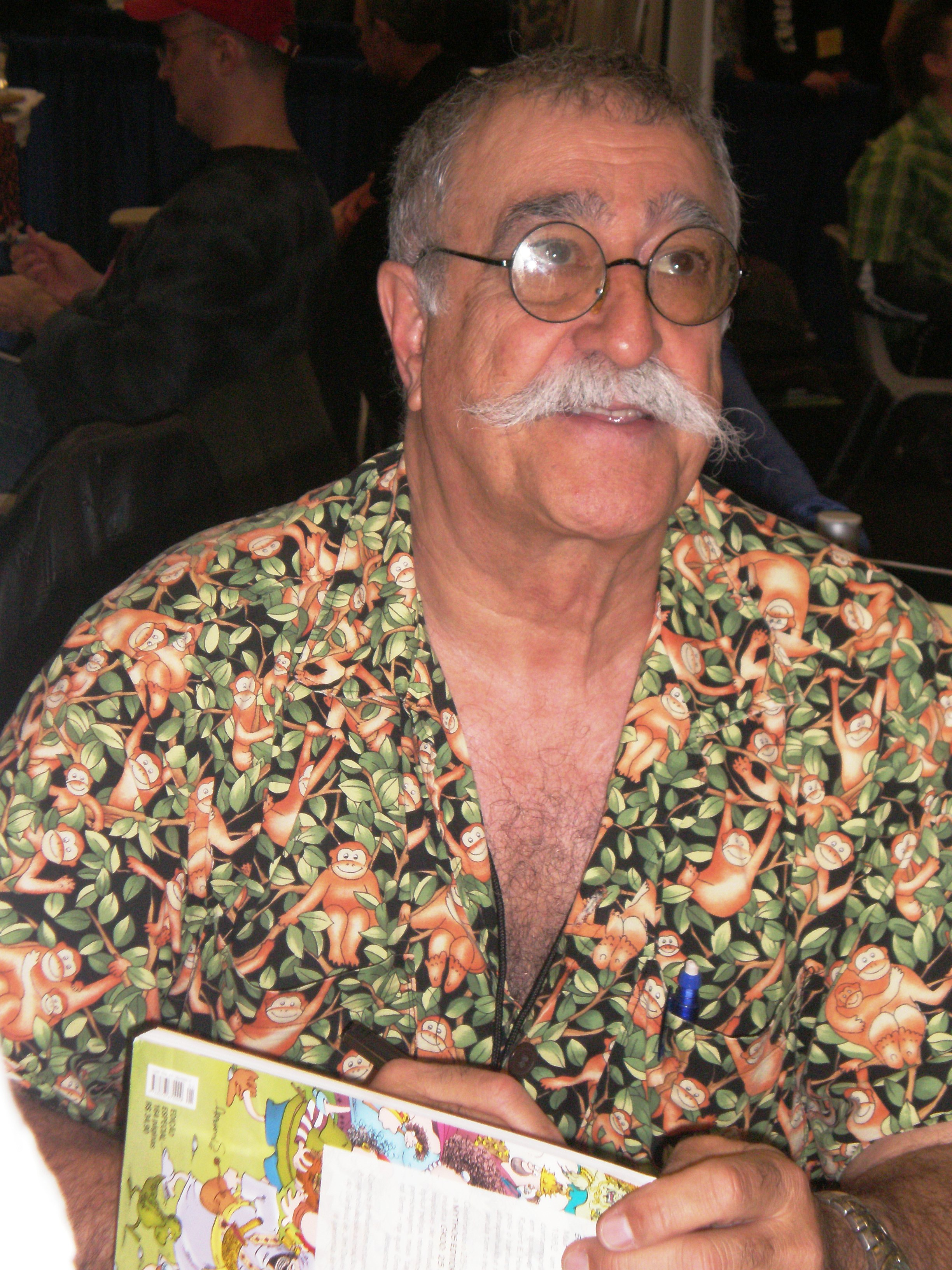 Sergio Aragonés at WonderCon 2009.